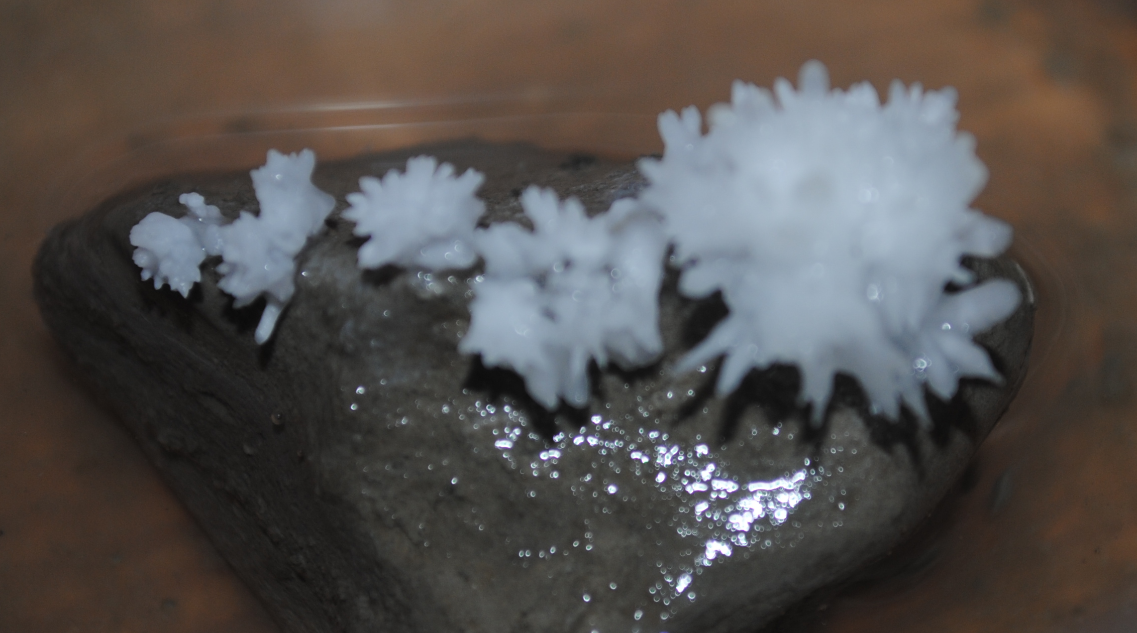 Calcium acetate crystals growing on a piece of limestone in vinegar.